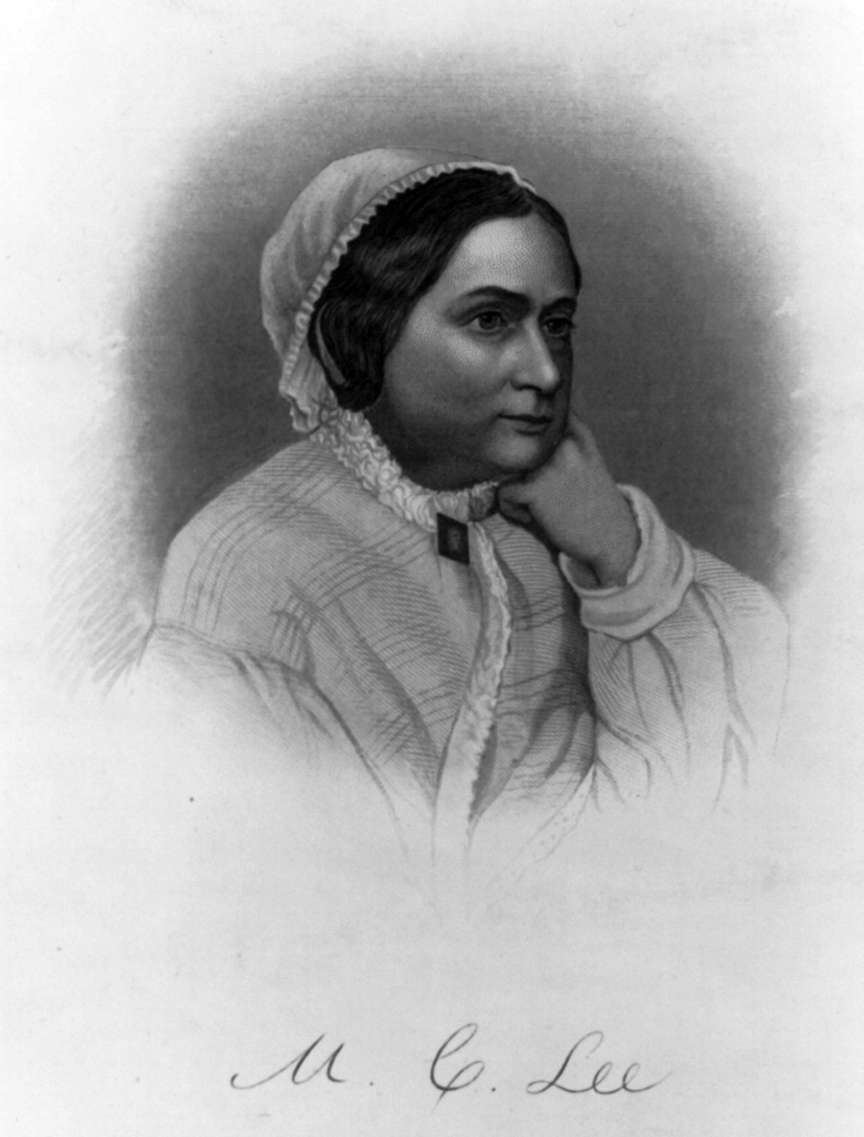 Mary Anna Custis Lee, wife of Confederate Army General Robert E. Lee